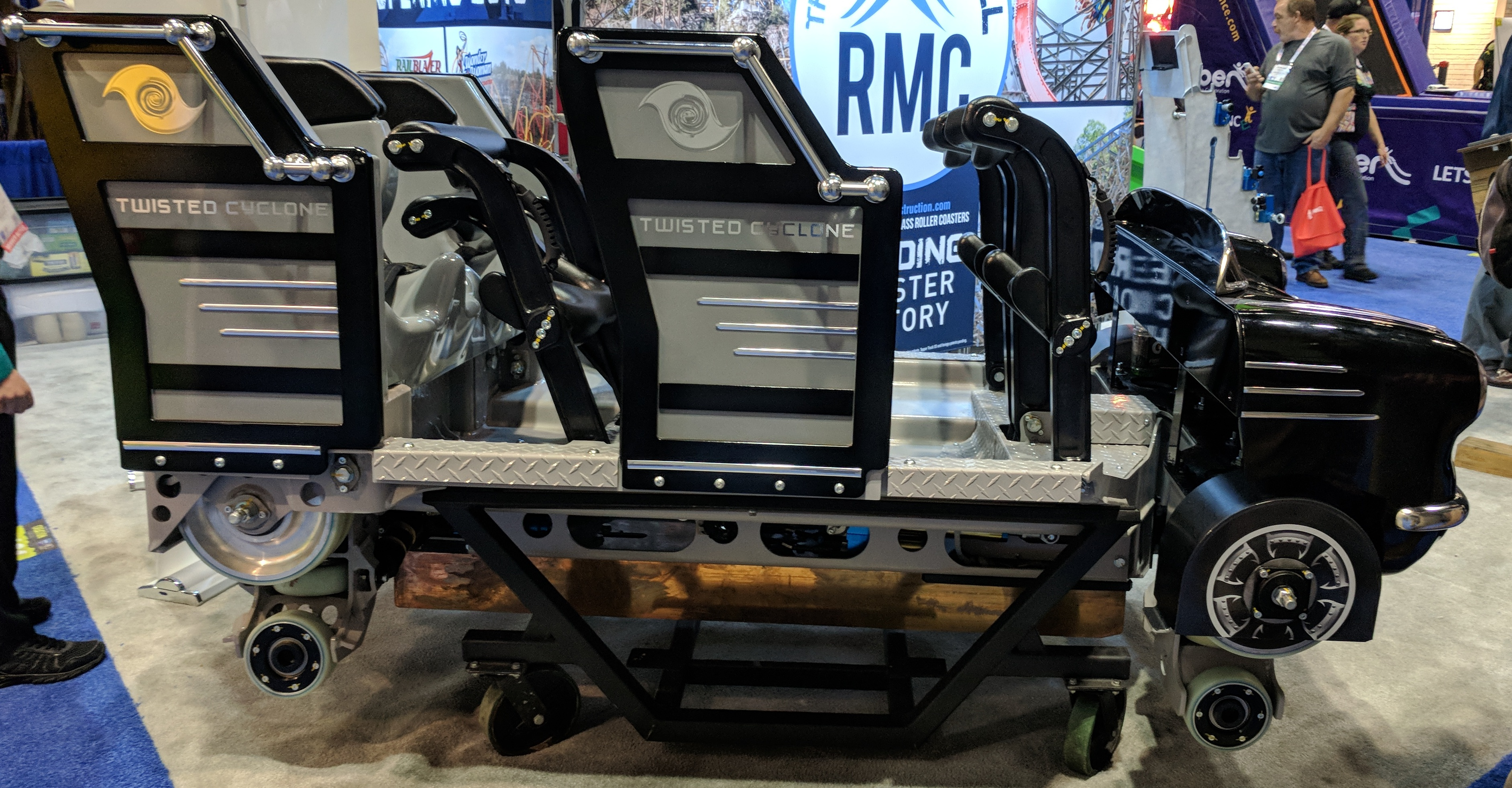 The car for the Twisted Cyclone ride that will be at Six Flags Over Georgia at the Rocky Mountain Construction booth at IAAPA IAE 2017 Note: In accordance with IAAPA IAE rules, permission was granted from the exhibitor to take this photograph and publish it for use on Wikipedia.